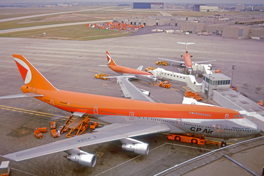 Boeing 747-217B C-FCRA of CP Air at Toronto Airport in 1975